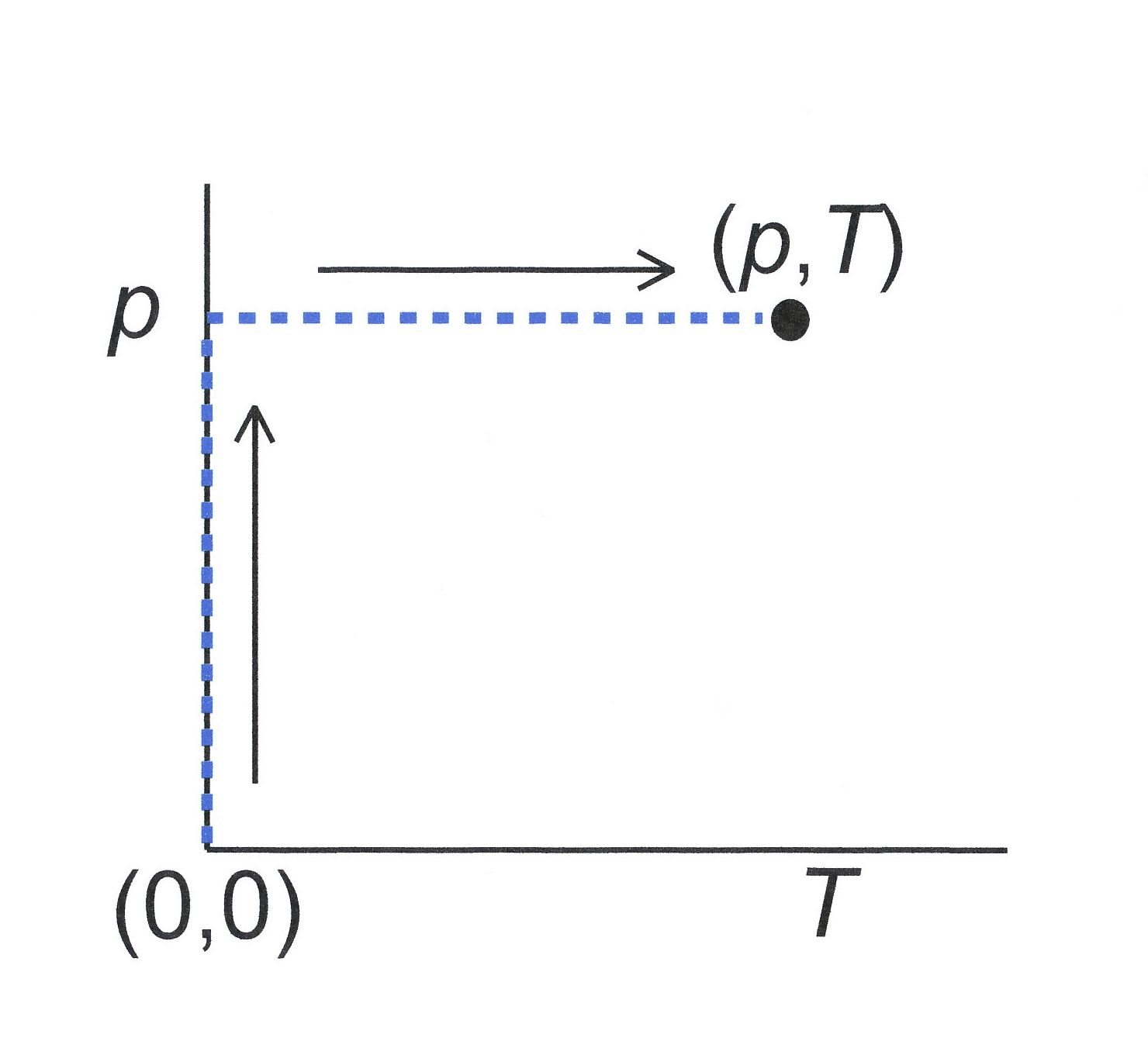 Integration path in pT diagram